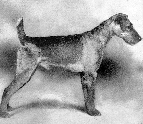 Ch. Boxwood Barkentine, airedale terrier, best in show winner 1922 at westminster kennel club dog show